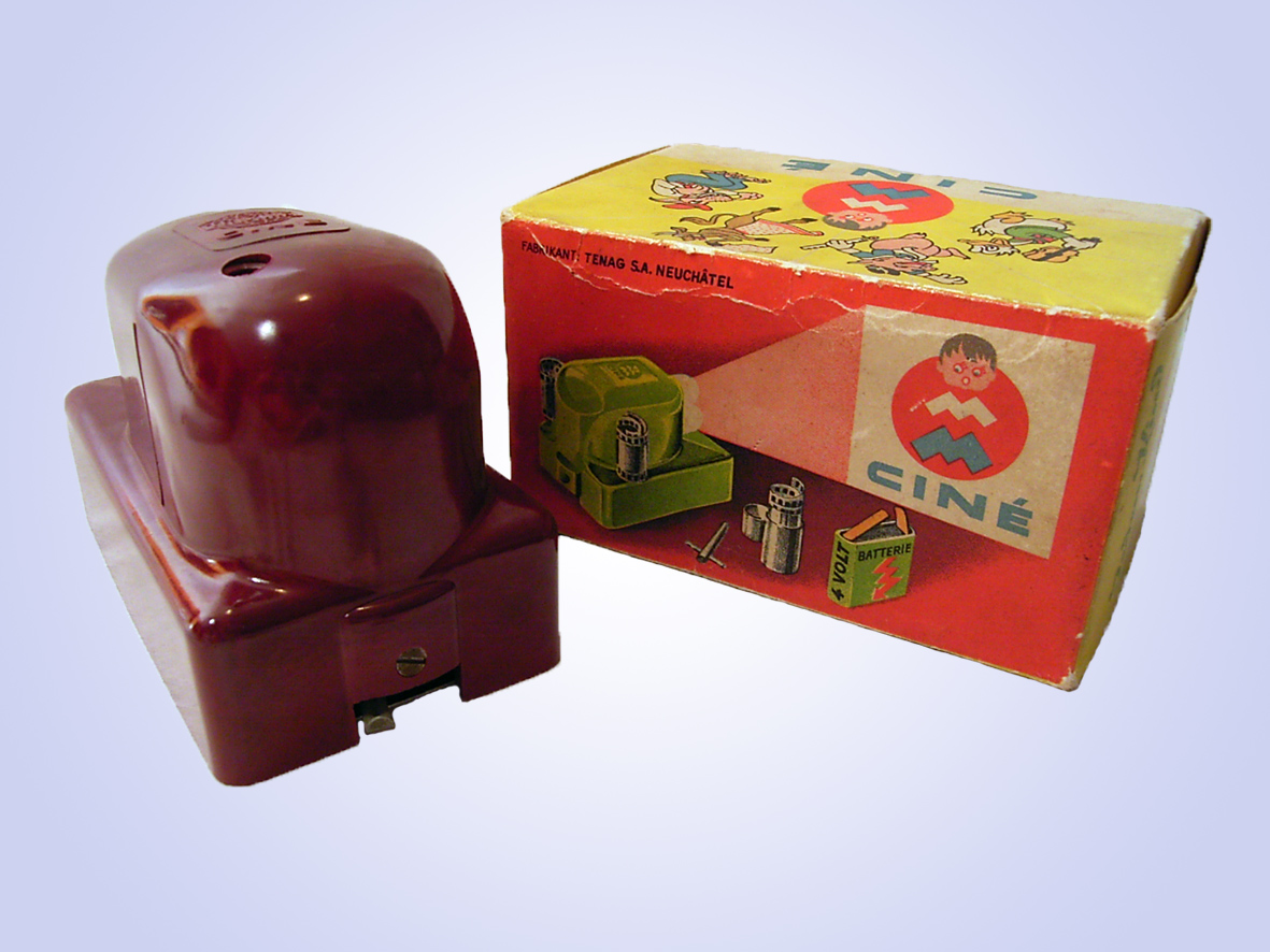 Trixine Cine Swiss